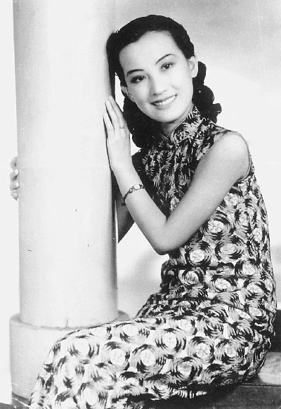 Chinese singer and actress Zhou Xuan (1918 - 1957)